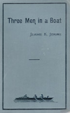 The cover of the first edition of Jerome K. Jerome (1889) Three Men in a Boat: (To Say Nothing of the Dog), Bristol: J.W. Arrowsmith OCLC: 213830865.